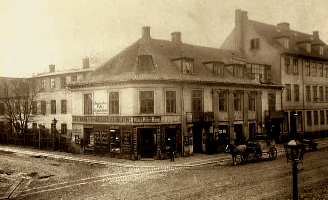 A now demolished building at the corner of Vesterbrogade 63 - Dannebrogsgade 2 in the Vesterbro district of Copenhagen, Denmark. The loft housed an early photographic studio which was operated by the following photographers: source 1867-1869 ca. J.W. Lund 1874-1876 C. Chr. Hansen 1876-1920 Joh. Frederik Søndenbro 1920-1928 ? 1928-1948(?) Julius Folkmann